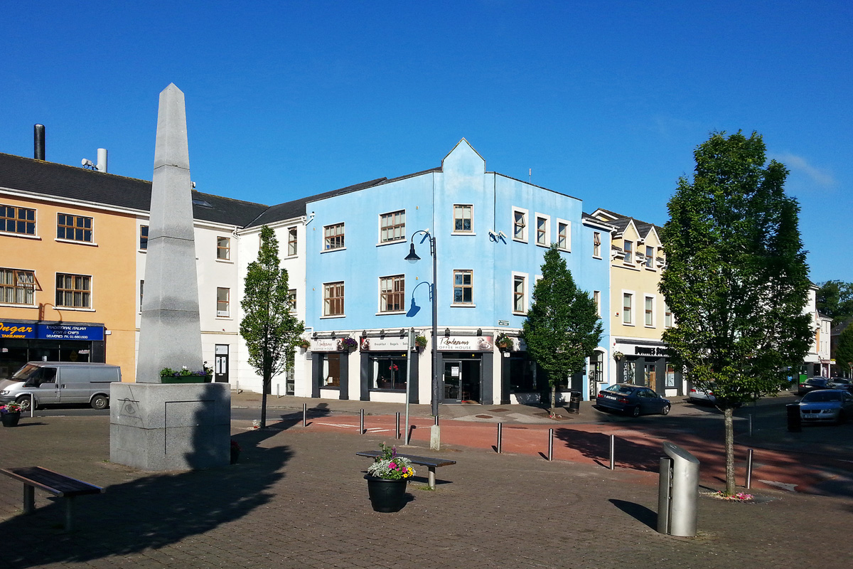 Ongar Village, Dublin 15, Ireland